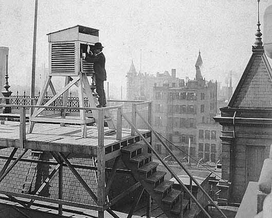 Taking weather observations in Minneapolis in 1890.